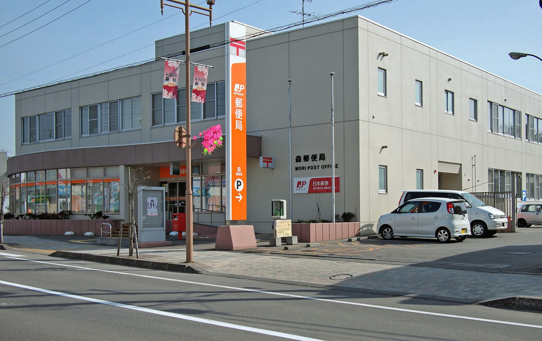 Mori post office, Mori, Hokkaido, Japan